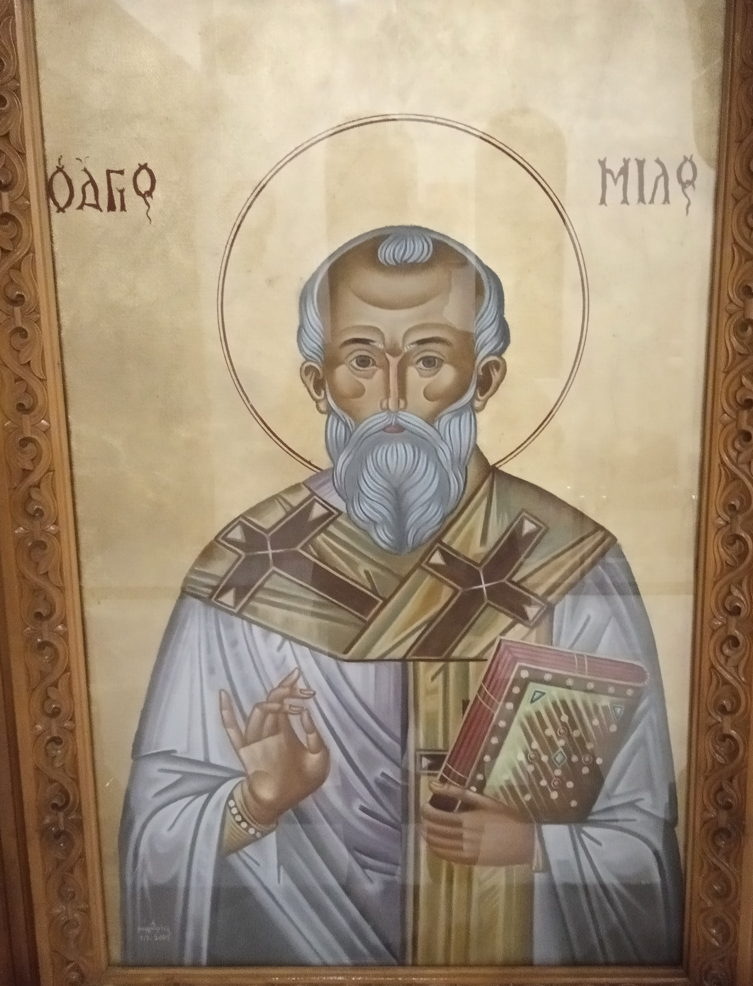 Icon of Saint hieromartyr Milis (Milos), bishop of Susa. The icon is found inside the Greek Orthodox church of St. Milos, in Patras, Greece.